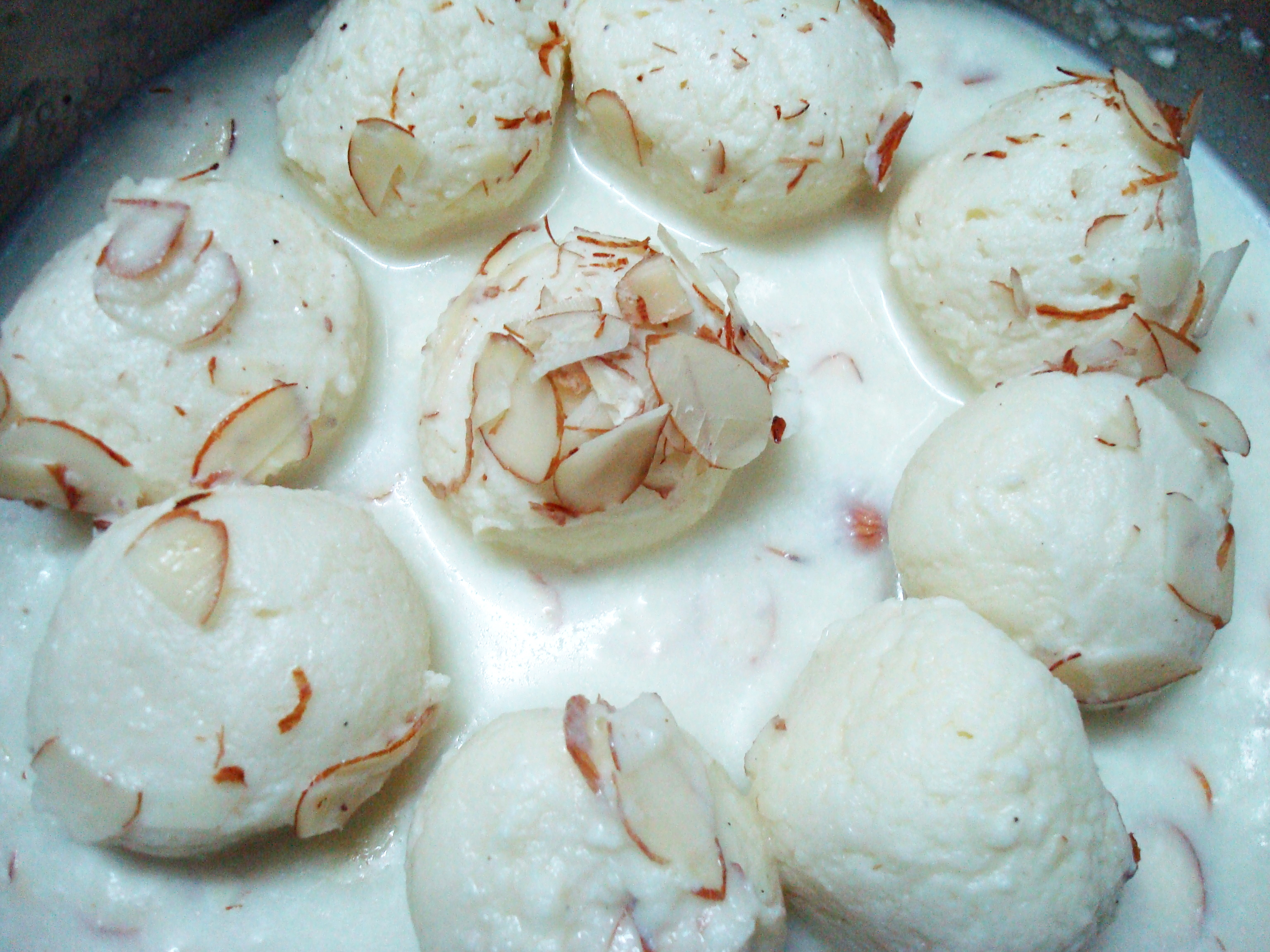 Rasmalai